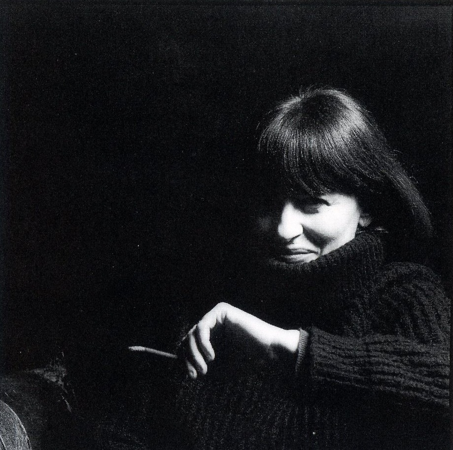 Picture by Antonia Mulas shows ceramist Rosanna Bianchi Piccoli. It was pubblished in: V. Scheiweller "Rosanna Bianchi Piccoli ceramista", ed. All'insegna del pesce d'oro, Arte Moderna Italiana, Milano 1995